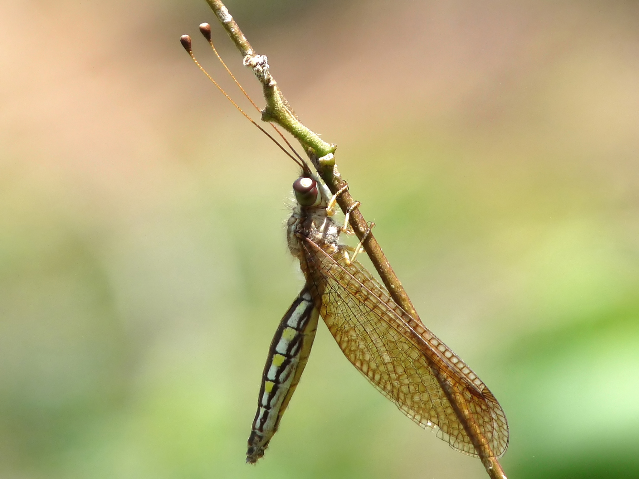 Owlflies are dragonfly-like insects with large bulging eyes and long knobbed antennae. They are neuropterans in the family Ascalaphidae; they are only distantly related to the true flies, and even more distant from the dragonflies and damselflies. They are diurnal or crepuscular predators of other flying insects, and are typically 5 cm (2.0 in) long. The Ascalaphinae are the namesake subfamily of the owlfly family (Ascalaphidae), winged insects of the order Neuroptera. Most are found in the tropics. Their characteristic apomorphy is the ridge which divides each of their huge compound eyes; they are thus known as split-eyed owlflies. This is Ascalaphus sinister Walker, 1853, female (Identified by Joshua R Jones at Texas A&M University.) Taken at Kadavoor, Kerala, India.